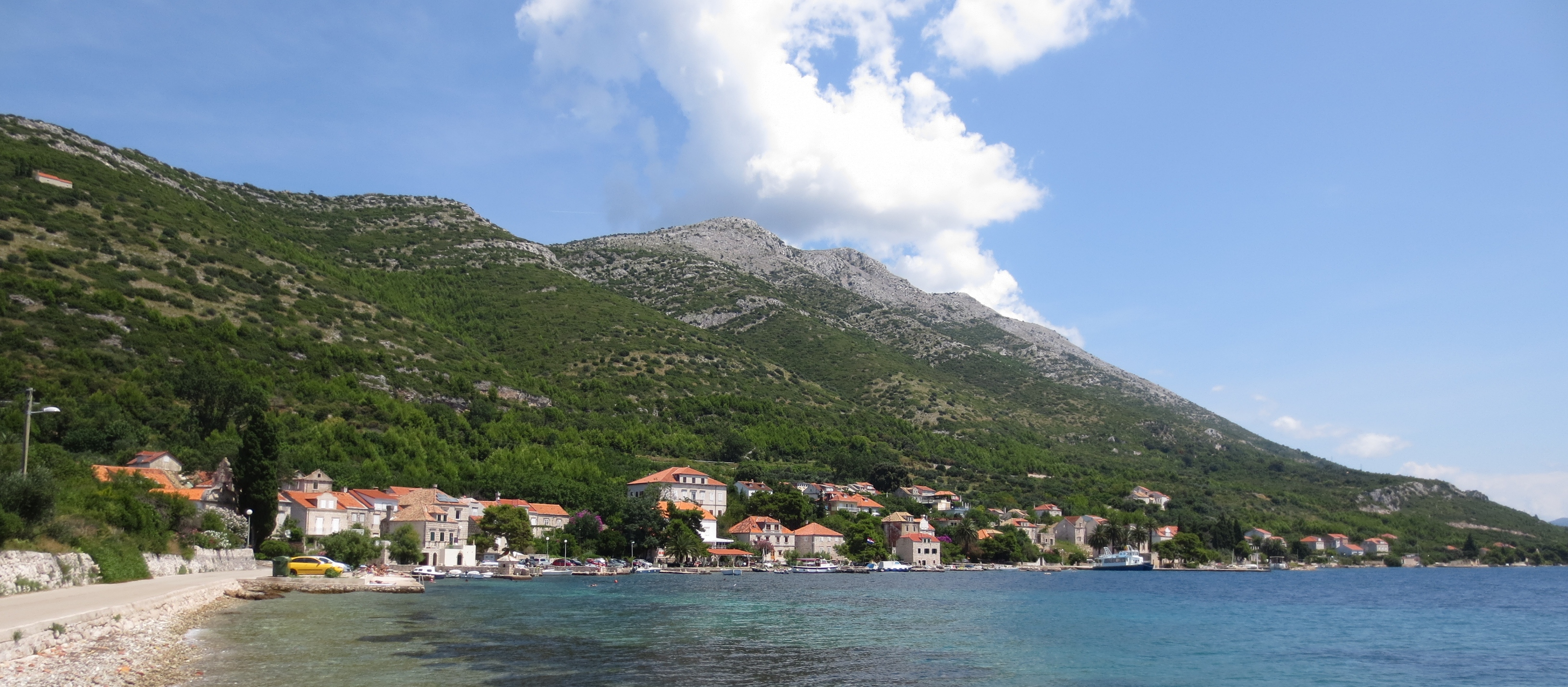 Village of Kučište near Orebič